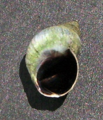 Littorina unifasciata antipodum (underside) from Wenderholm, near Auckland, New Zealand. This work has been released into the public domain by its author, Graham Bould. This applies worldwide. In some countries this may not be legally possible; if so: Graham Bould grants anyone the right to use this work for any purpose, without any conditions, unless such conditions are required by law.